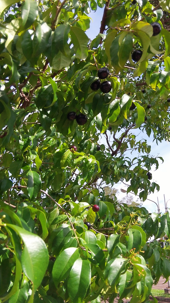 Eugenia candolleana (Rainforest plum, cambuí roxo, murtinha), canopy and ripe fruits (uncropped). Picture taken in the UNICAMP campus (Campinas, SP, Brazil) by J. Stolfi on 2012-02-26, with a Kodak Playsport; reduced to 1/3 size with GIMP.